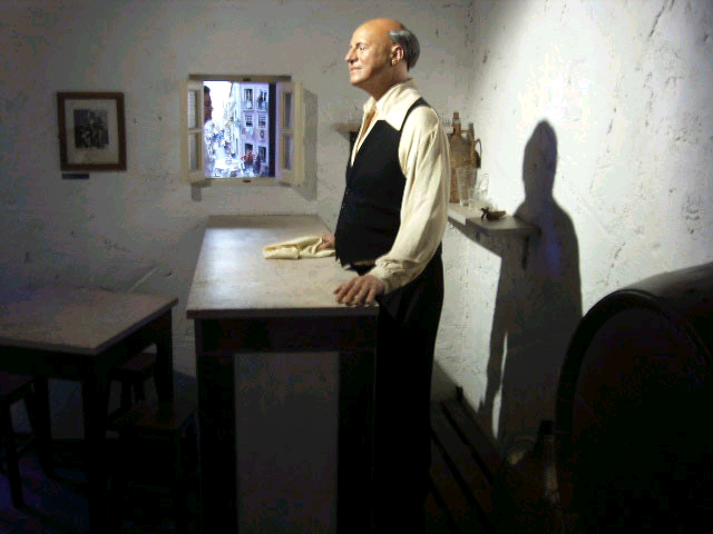 Fado Museum in Lisbon, Portugal: Example of a tipical fado tavern.